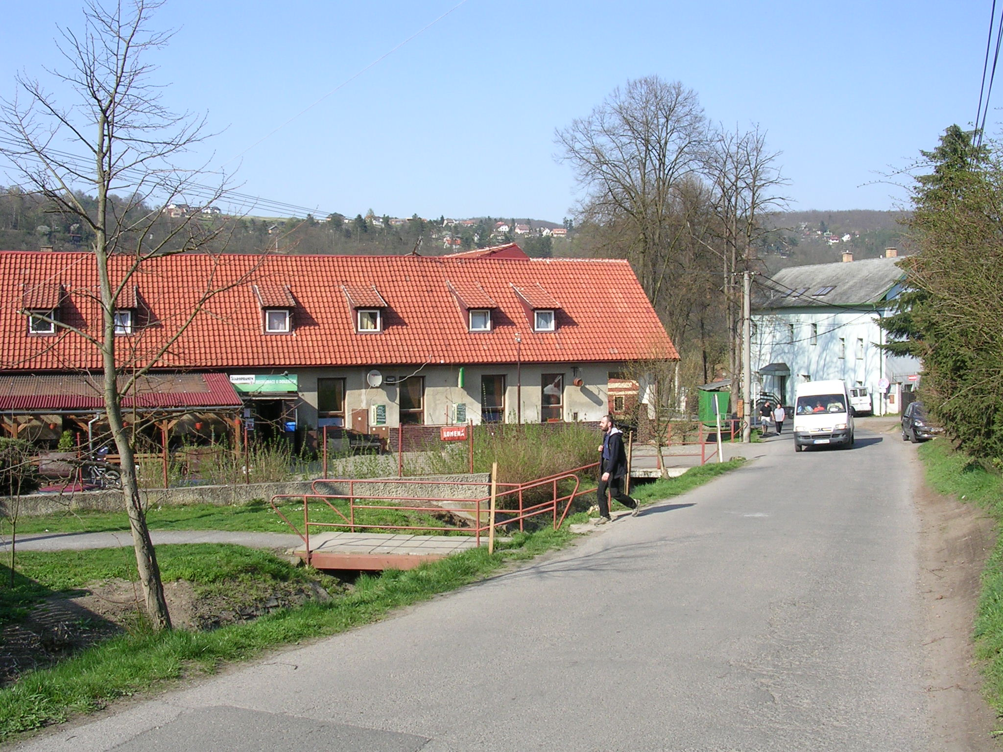 Hradištko-Pikovice, Central Bohemian Region, the Czech Republic.